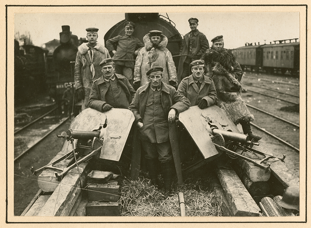 Title: [German soldiers on a train] Creator: Unknown Date: Spring 1918 Part Of: Place: Ukraine Physical Description: 1 photographic print: gelatin silver; 8 x 12 cm. on 34 x 44 cm. mount File: ag1982_0048x_13c_sm_opt.jpg Rights: Please cite DeGolyer Library, Southern Methodist University when using this file. A high-resolution version of this file may be obtained for a fee. For details see the web page. For other information, . Both the full portfolio and the 263 individual photographs, scanned at a higher resolution, are available. View the full portfolio: View the individual photographs: For more information, View the